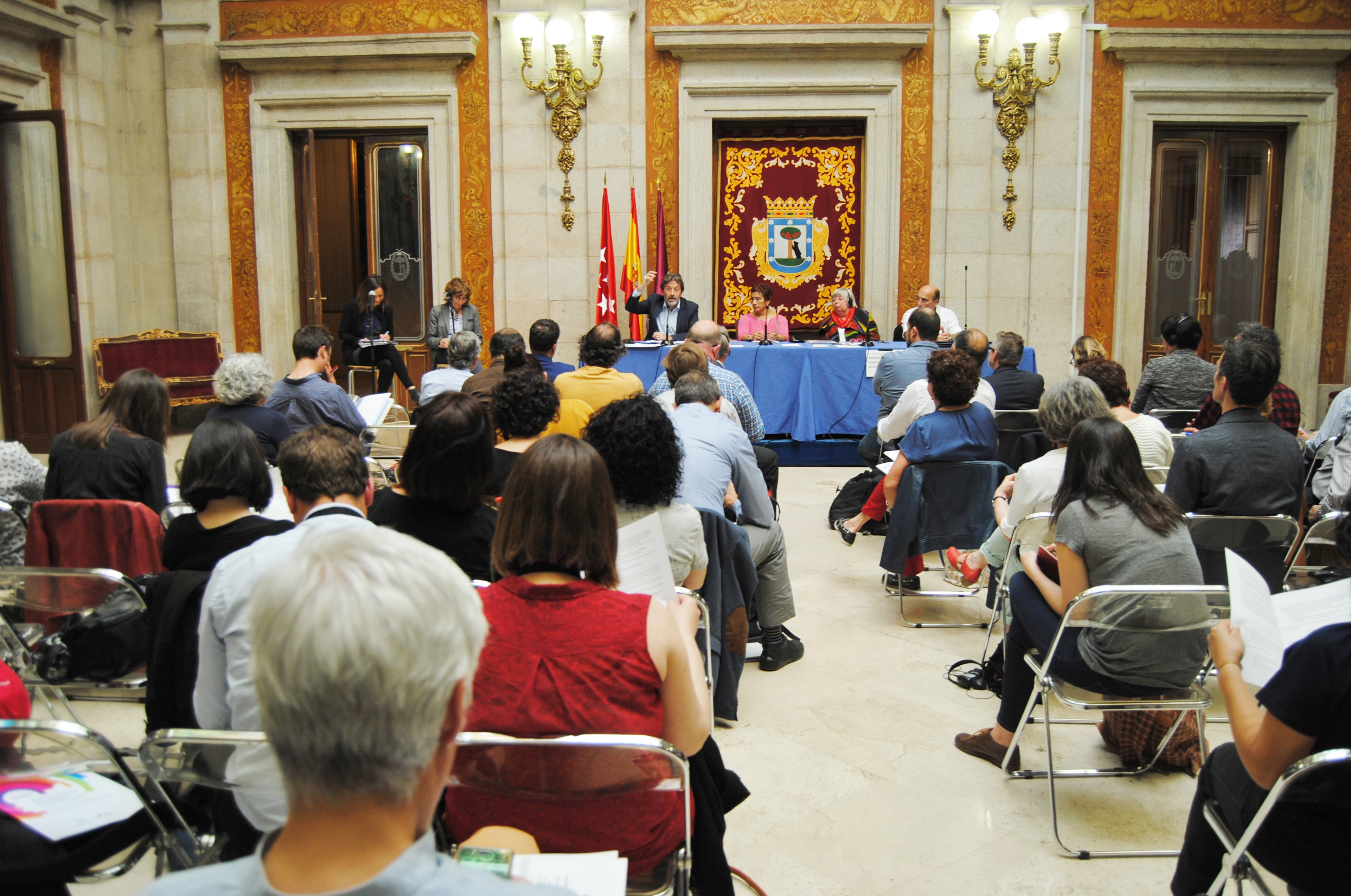 The meeting of cities for human rights and the right to the city of Madrid hosted tens of local authorities committed to promote and defend human rights at the local level